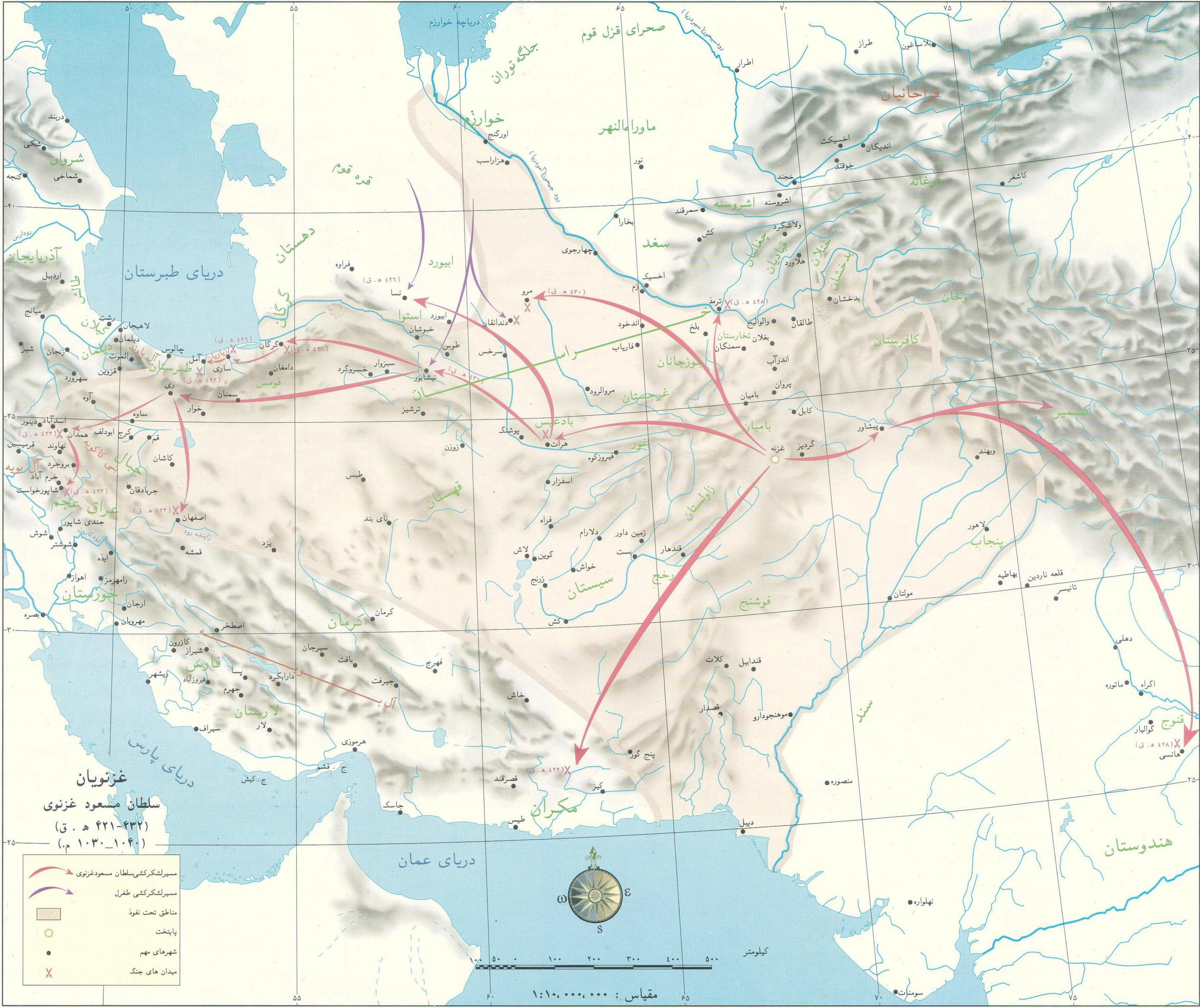 map of Iran during King Masoud Ghaznavi 1030-1040 AD